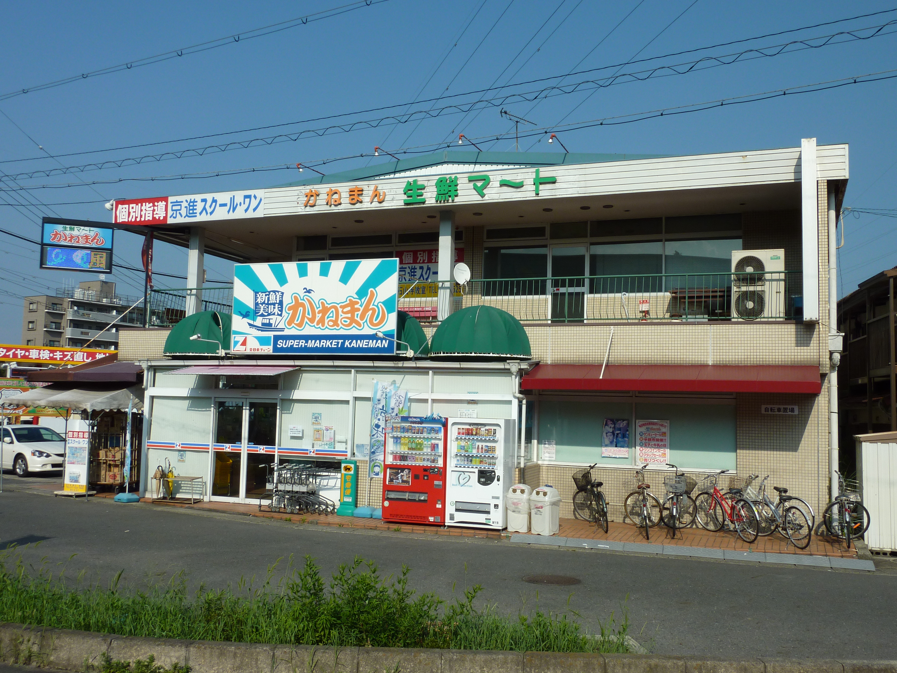 A pattern of Zennisshoku chain shop.